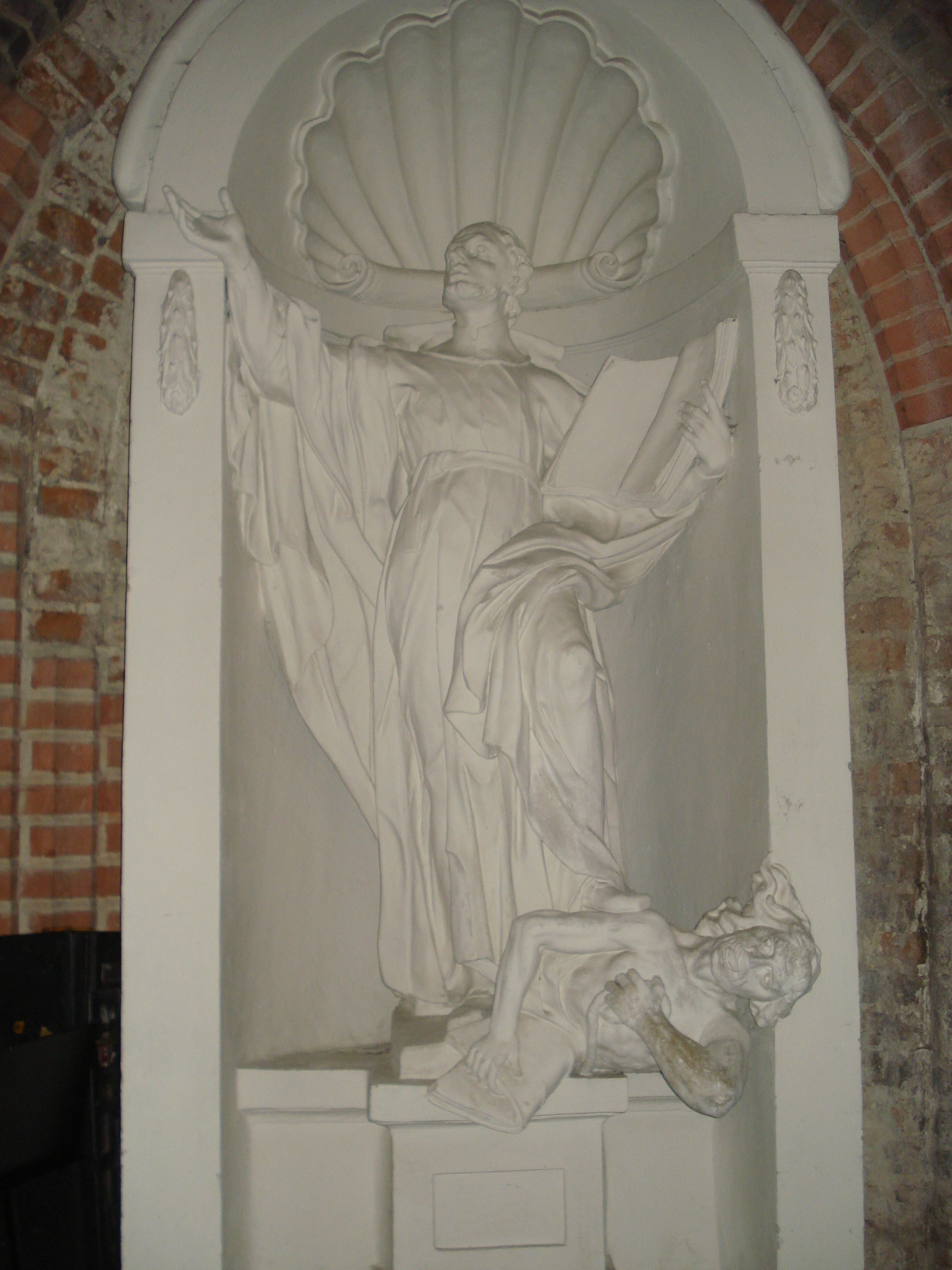 Statue depicts Ignatius of Loyola trampled heresy in the Church of St. Johns in Vilnius